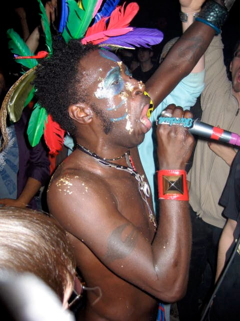 The Inevitable Rise and Liberation of NiggyTardust! concert in Montreal, Canada (2007)